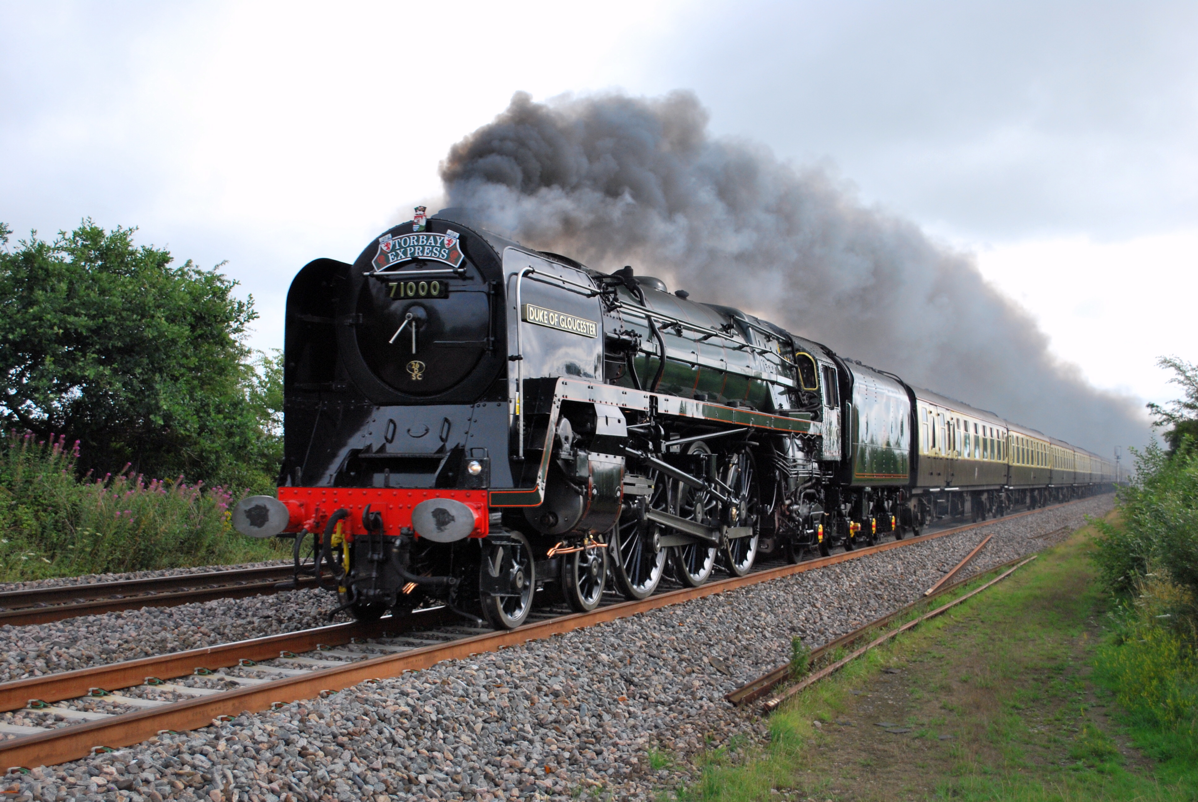 BR Riddles Standard Class "8P" 4-6-2 No.71000 "Duke of Gloucester" hammering across the Somerset Levels on the Bristol Temple Meads - Paignton "Torbay Express" 08/10. The Standard Class "8P" was the most economical simple-expansion engine ever built with a maximum steam consumption of 12.2lbs per ihp/hr. Only the French Chapelon compound-expansion Class 240P 4-8-0 and 141P 2-8-2 classes were more efficient (with 11.4lbs and 11.2lbs respectively) but these were complex, high maintenance machines. Probably the most economical German design was the compound Class "04" 4-6-2 at 12.6 lbs (also complex and maintenance intensive) and the most economical American loco was the Pennsylvania RR Class "T1" 4-4-4-4 Duplexi at 13.4 lbs (controversial and tempramental machines).